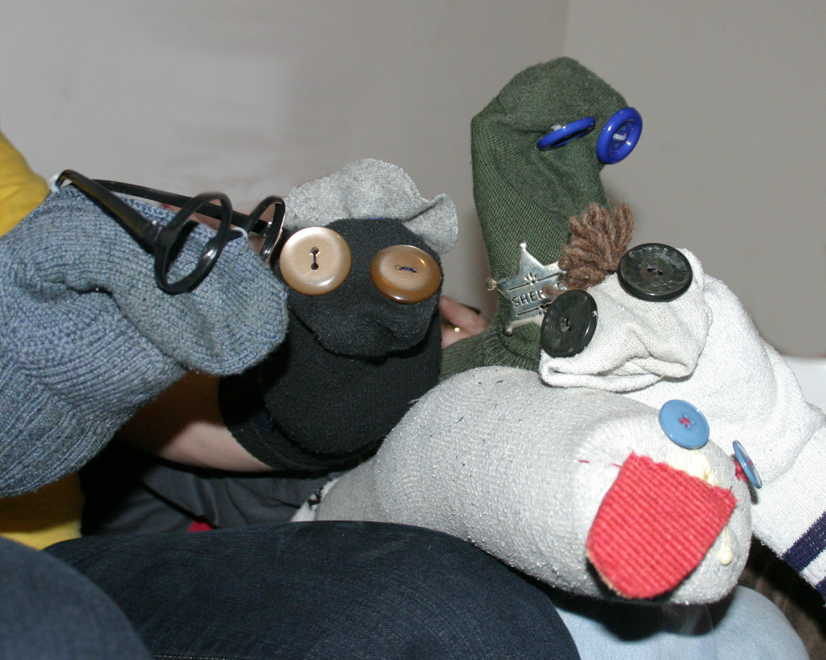 typical German Sockpuppets schmoozing at Cologne workshop